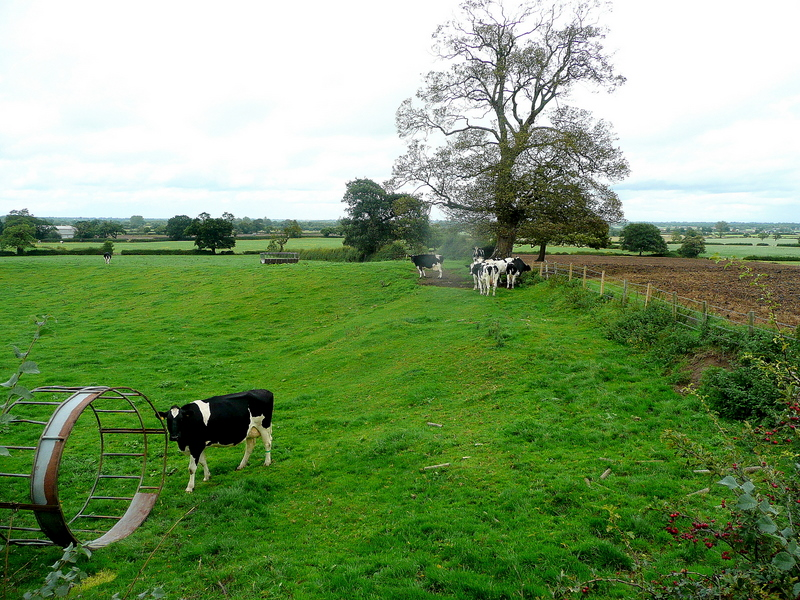 Cheshire dairy pasture The placename strongly suggests the dominant land-use.